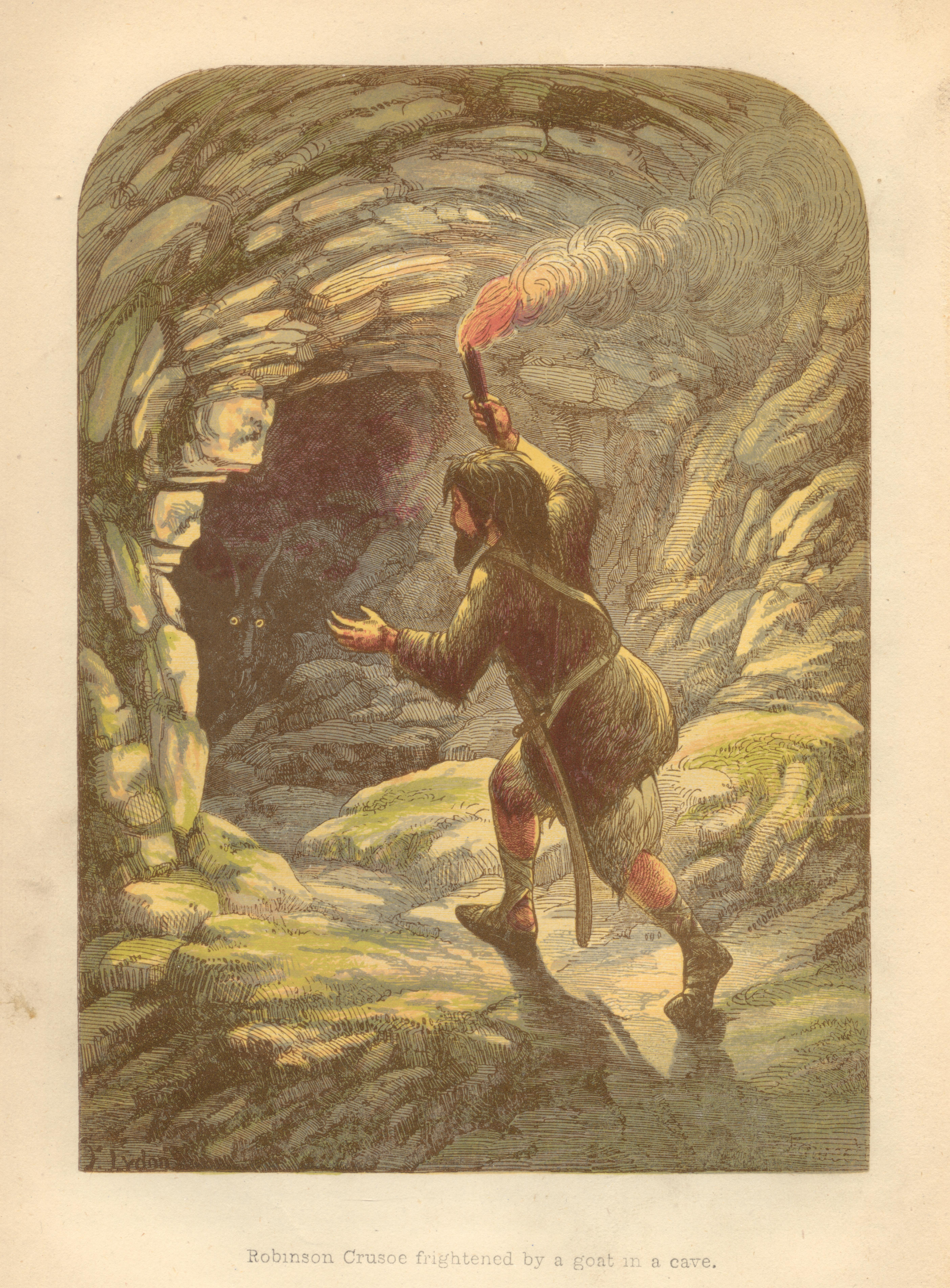 Alexander Frank Lydon illustration of 1865 Groombridge and Sons edition of Robinson Crusoe scanned and archived at where it was marked as Public Domain.